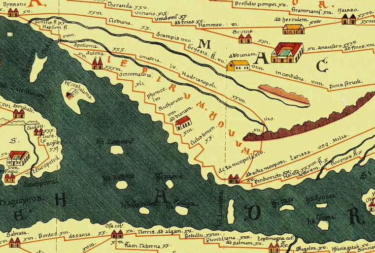 South Illyria on the Tabula Peutingeriana